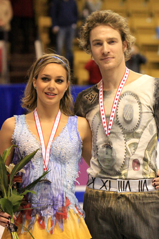 Nathalie PECHALAT and Fabian BOURZAT at the 2009 Skate Canada